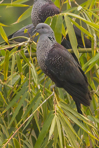 The species Speckled Wood Pigeon had been photographed at Aritar in Pangolakha WLS in Sikkim, India on 08.01.2014. during GoingWild's birding tour.